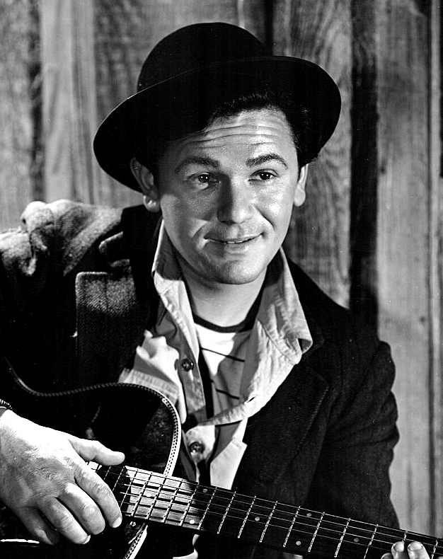 Publicity photo of John Garfield in Tortilla Flat.